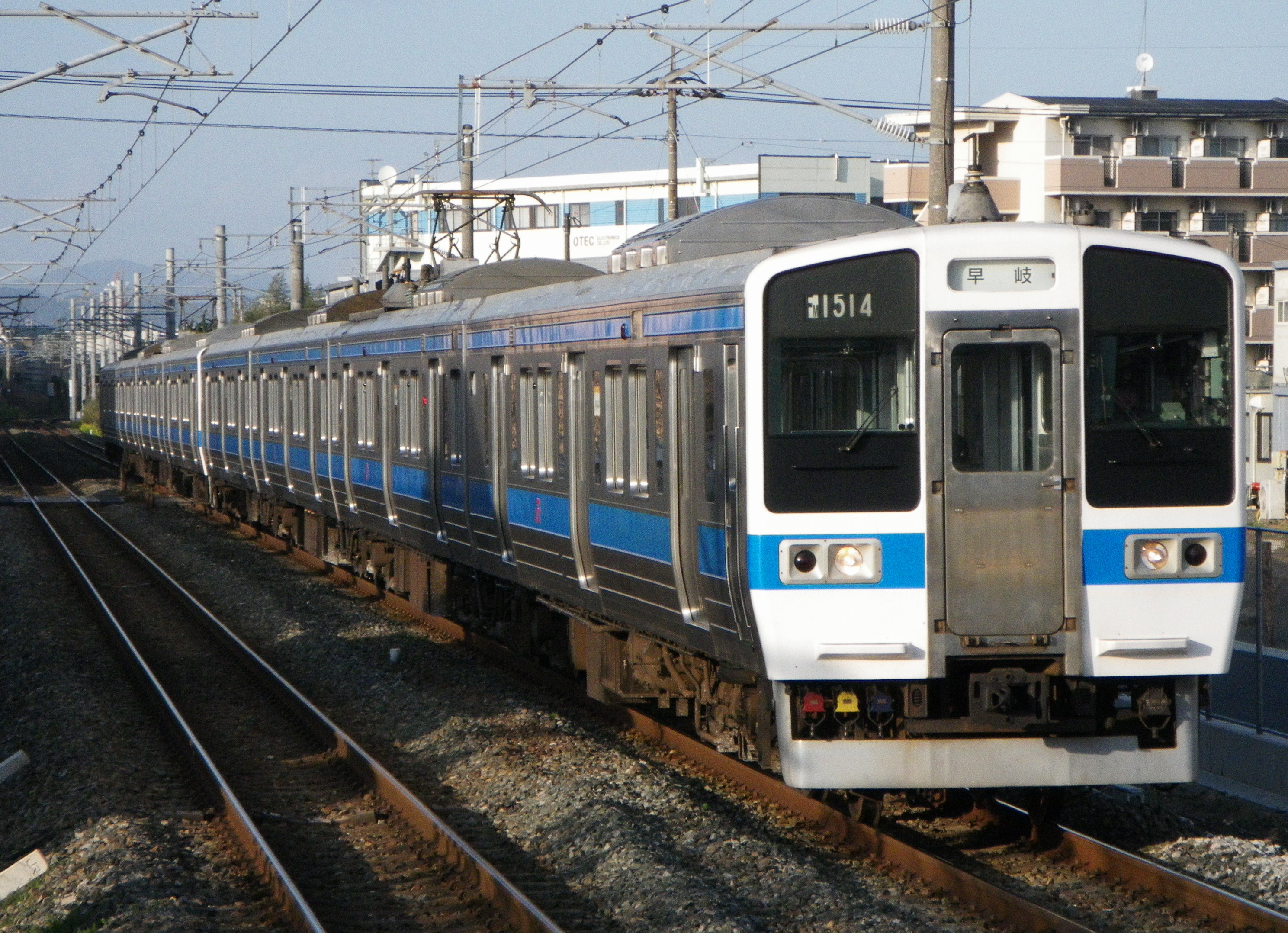 Series 415-1500,Kyushu railway comapany,Kagoshima-line,Shing-chuo station,Kaminofu,Shingu-town,Fukuoka,Japan.